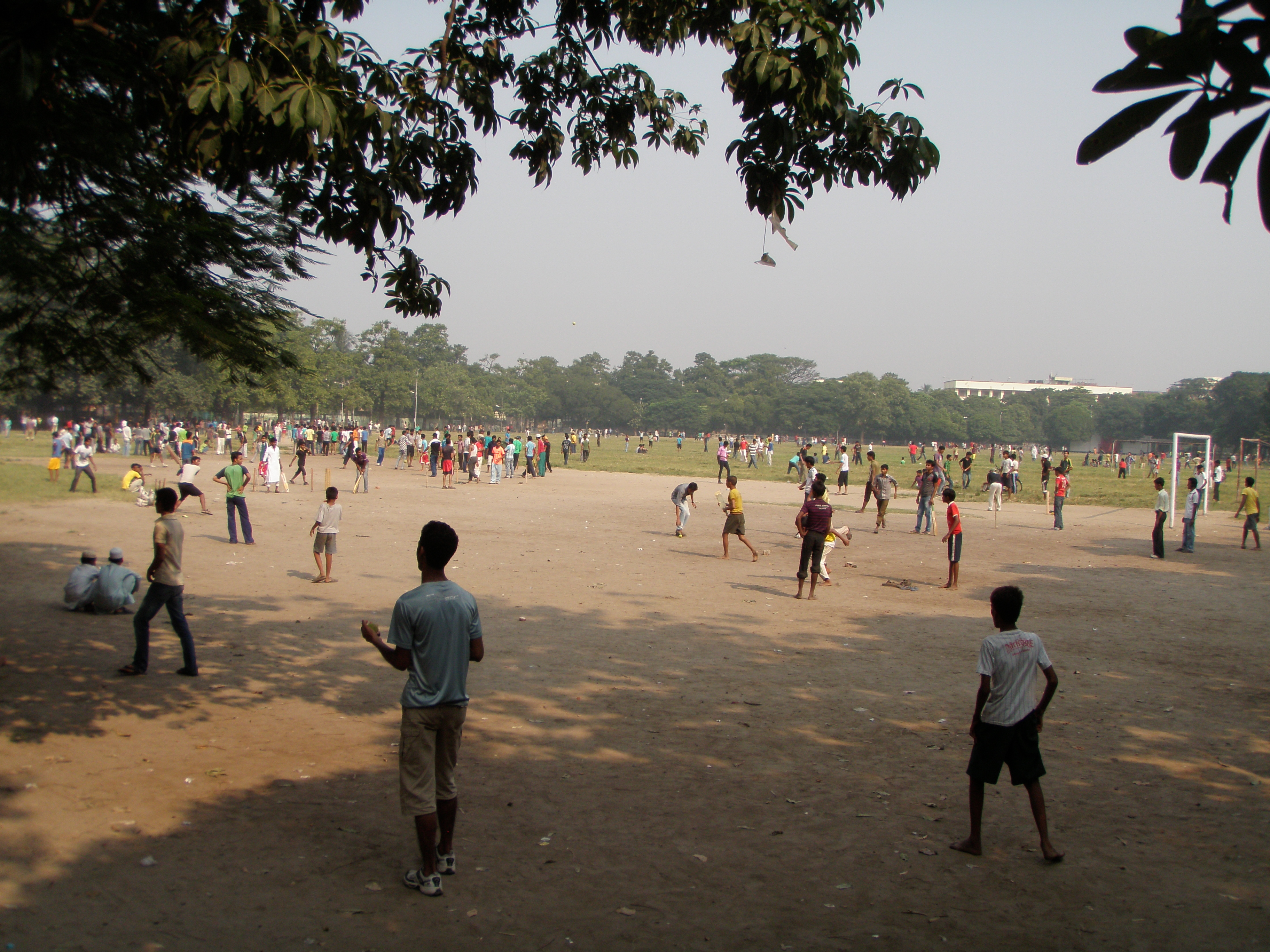 Park Circus Maidan (open field).